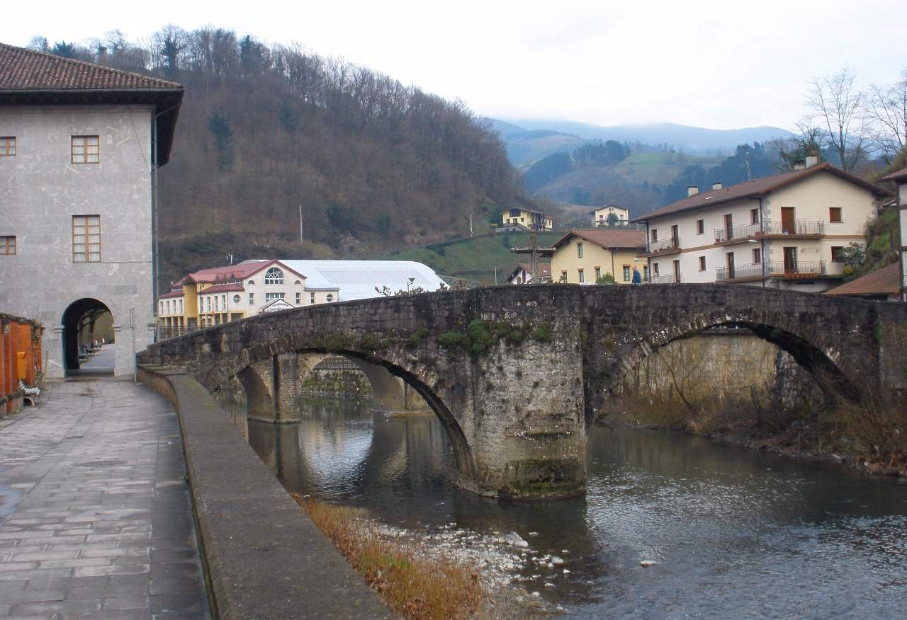 El río Oria a su paso por Alegia (Guipúzcoa)